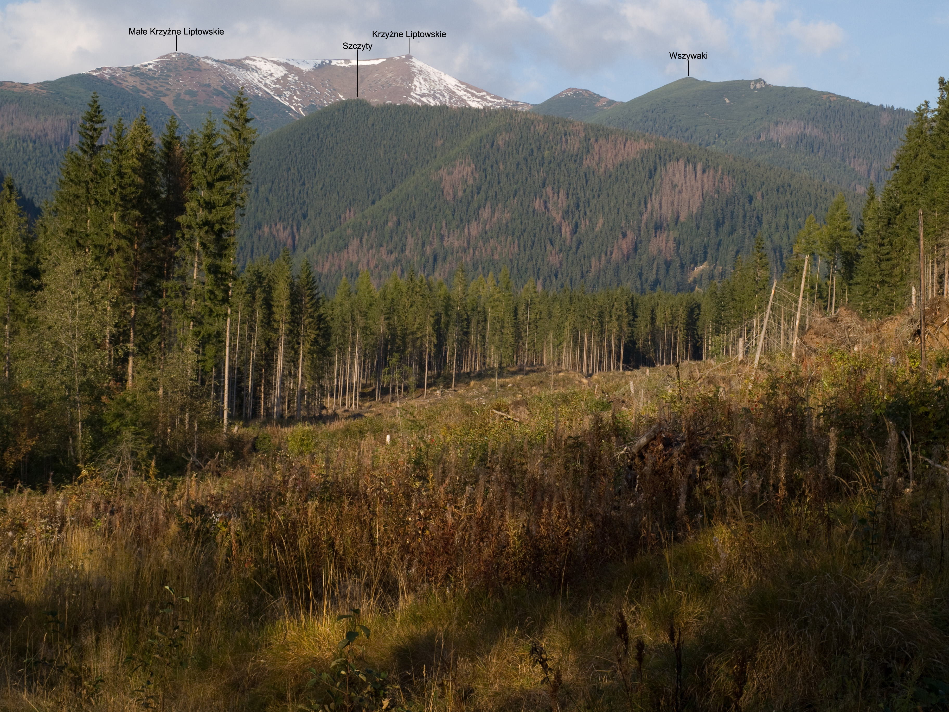 Krížné from near Podbanské